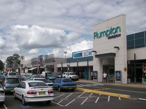 Plumpton Marketplace, Hyatts Road, Plumpton, NSW